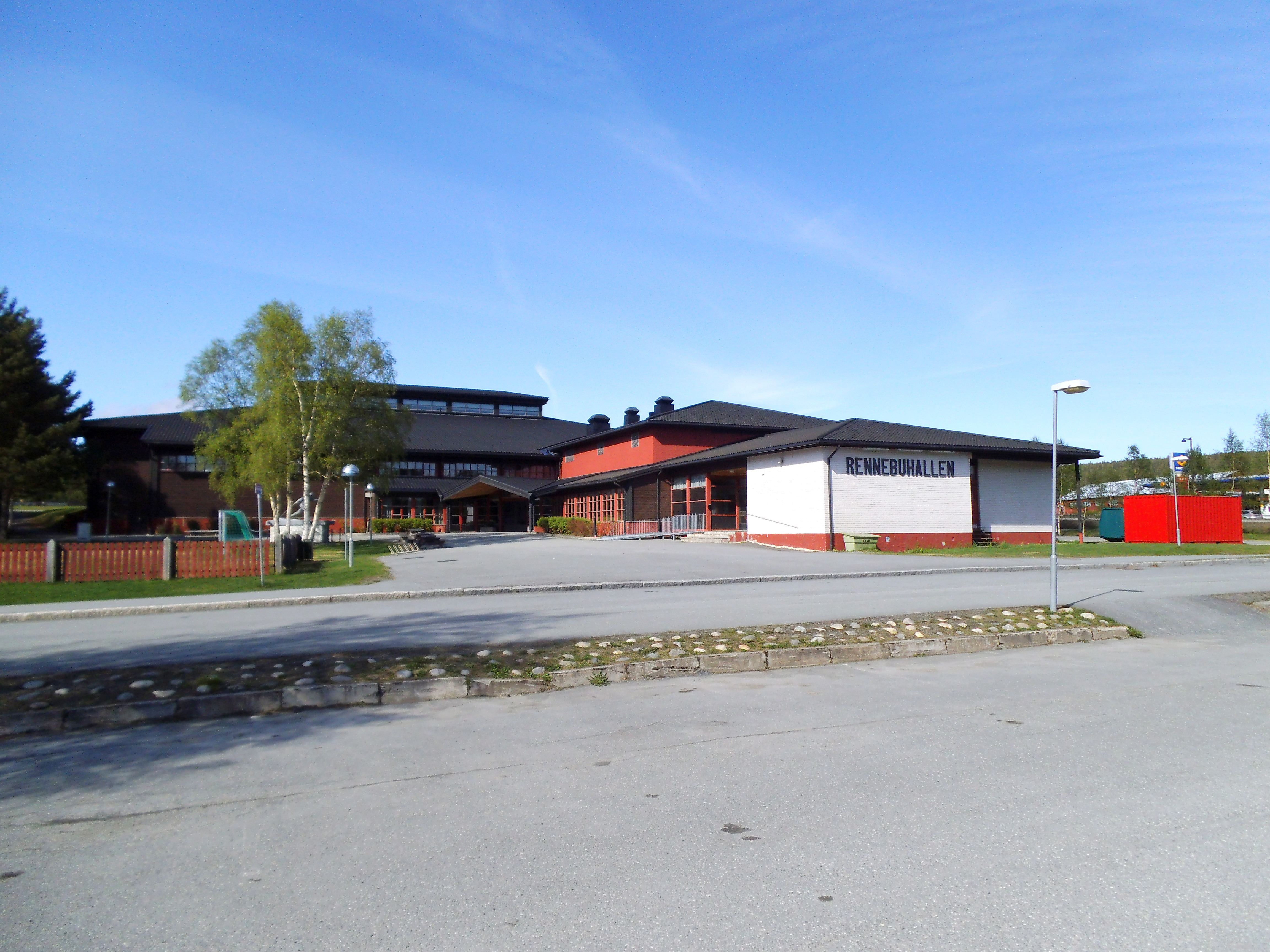 Rennebuhallen is an indoor sports-arena in Rennebu, Norway.